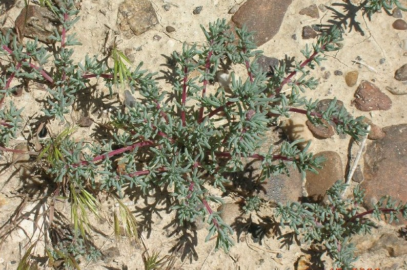 Halogeton glomeratus from Bureau of Land Management. United States, ID, Bureau of Land Management Jarbidge Resource Area.